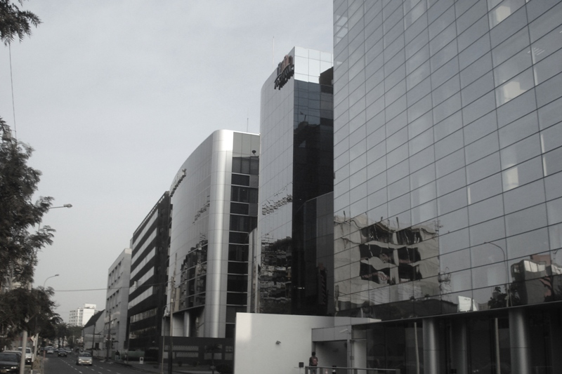 San Isidro, central business district in Lima, Peru